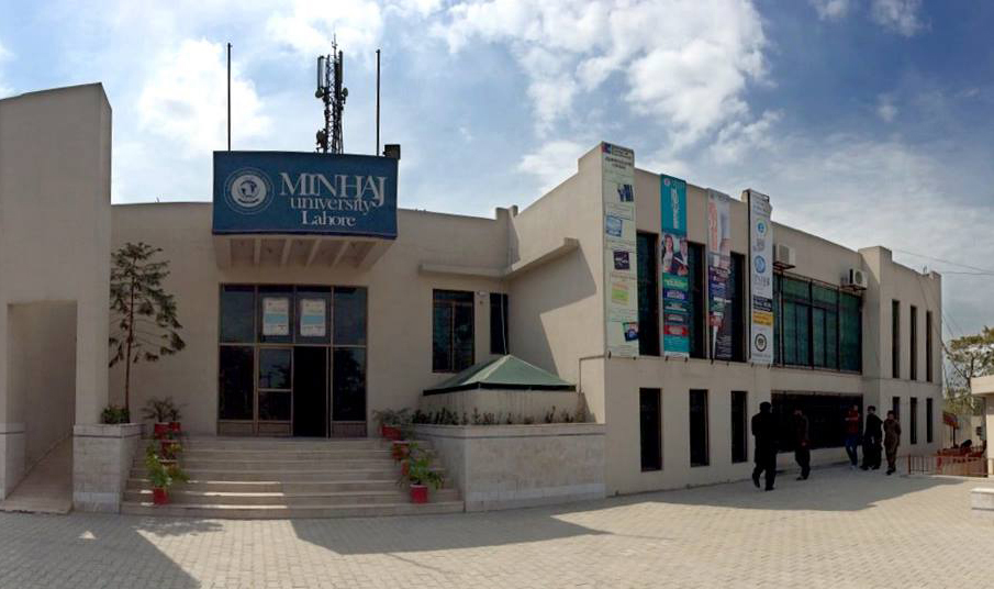 Licensing Policy about Wikipedia This is to clarify that all contents and images of this website can be used with reference of this website on Wikipedia under the free license: Creative Commons Attribution-Share Alike 4.0 International.